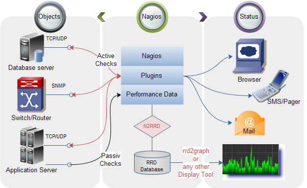 Author: Badri Pillai